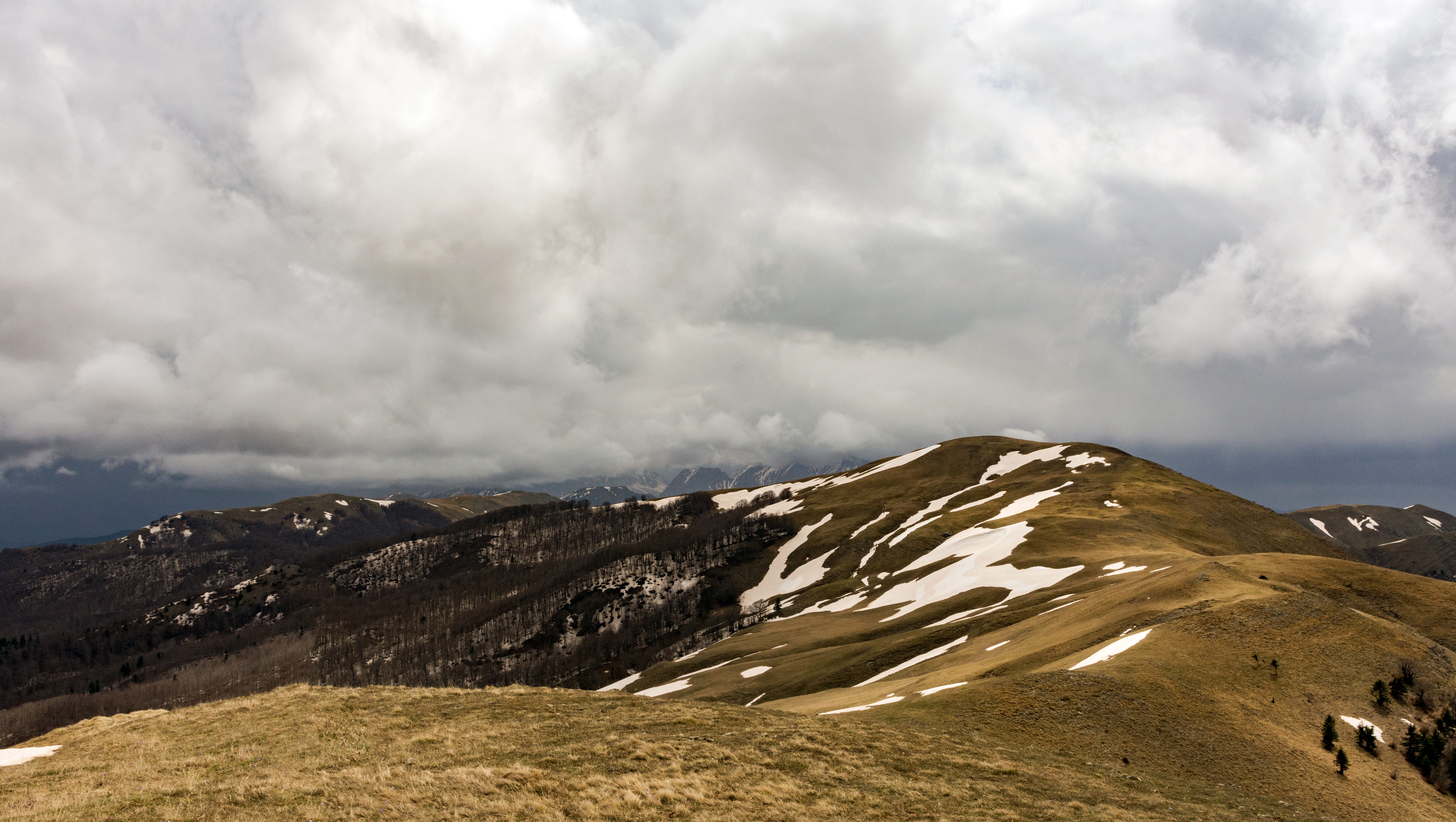 The top Sarantena and at the southeast to the background the mountain Vardousia